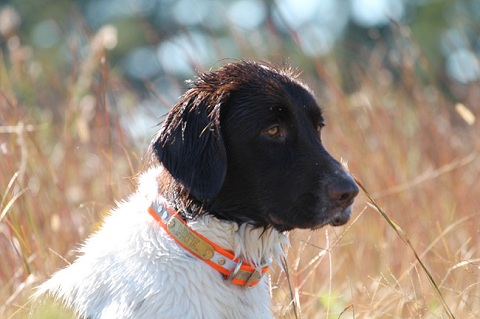 Small Munsterlander prominence. Head and eyes